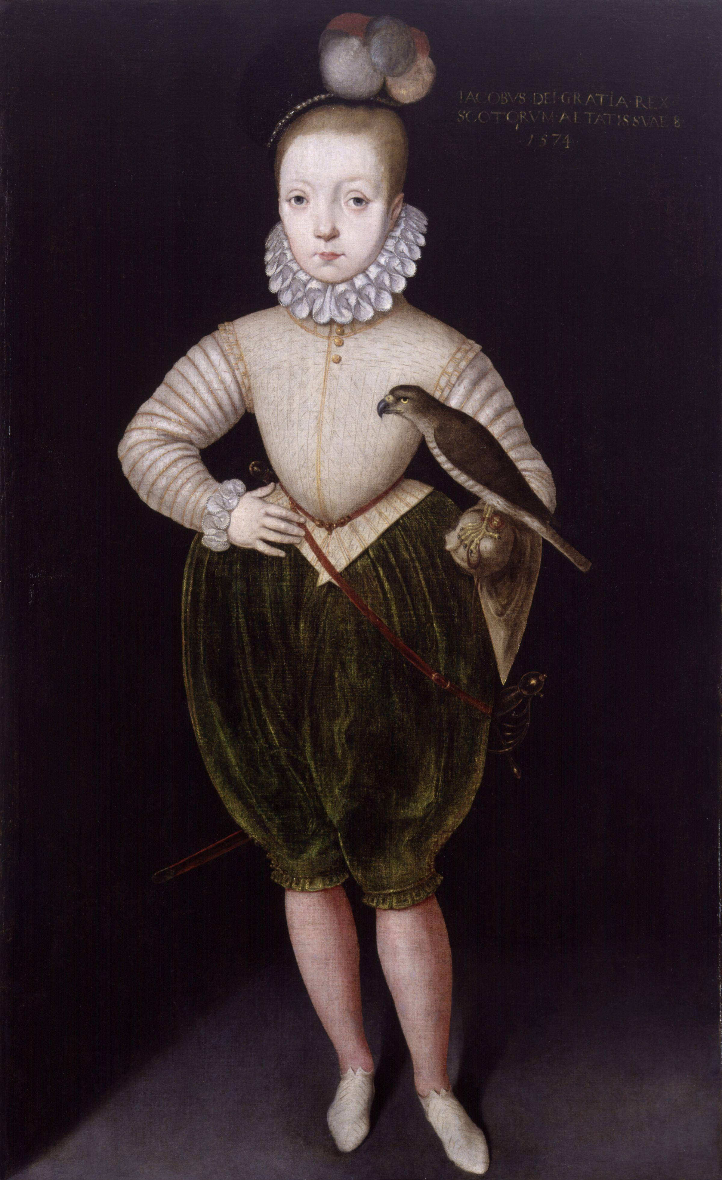 King James I of England and VI of Scotland, attributed to Rowland Lockey, after a portrait by Arnold van Brounckhorst (floruit 1580). All images in this batch have a known author with unknown death date, but according to the NPG's website the author was floruit (known to be active) prior to 1859, and so is reasonably presumed dead by 1939.